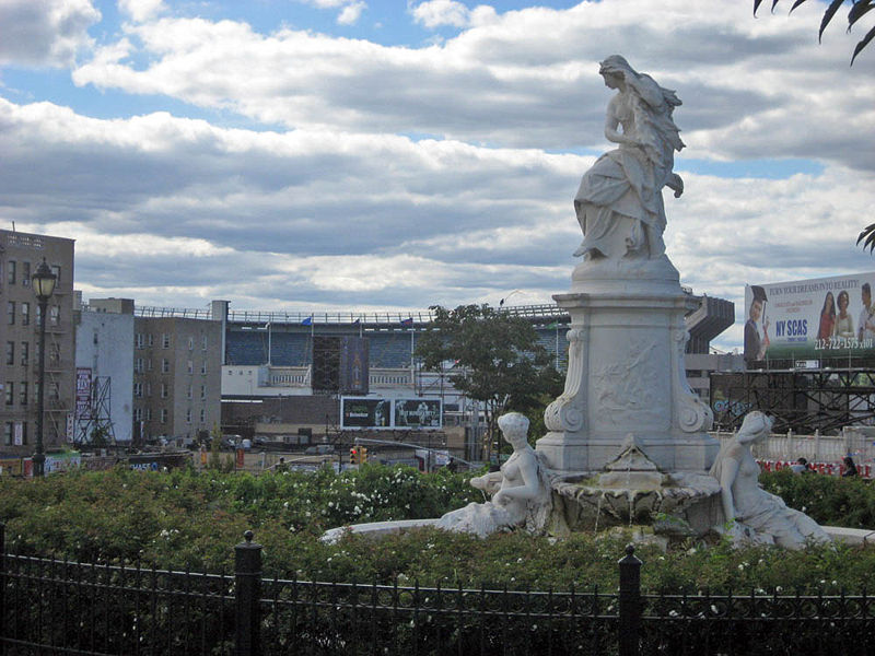 Loreley fountain and Yankee Stadium